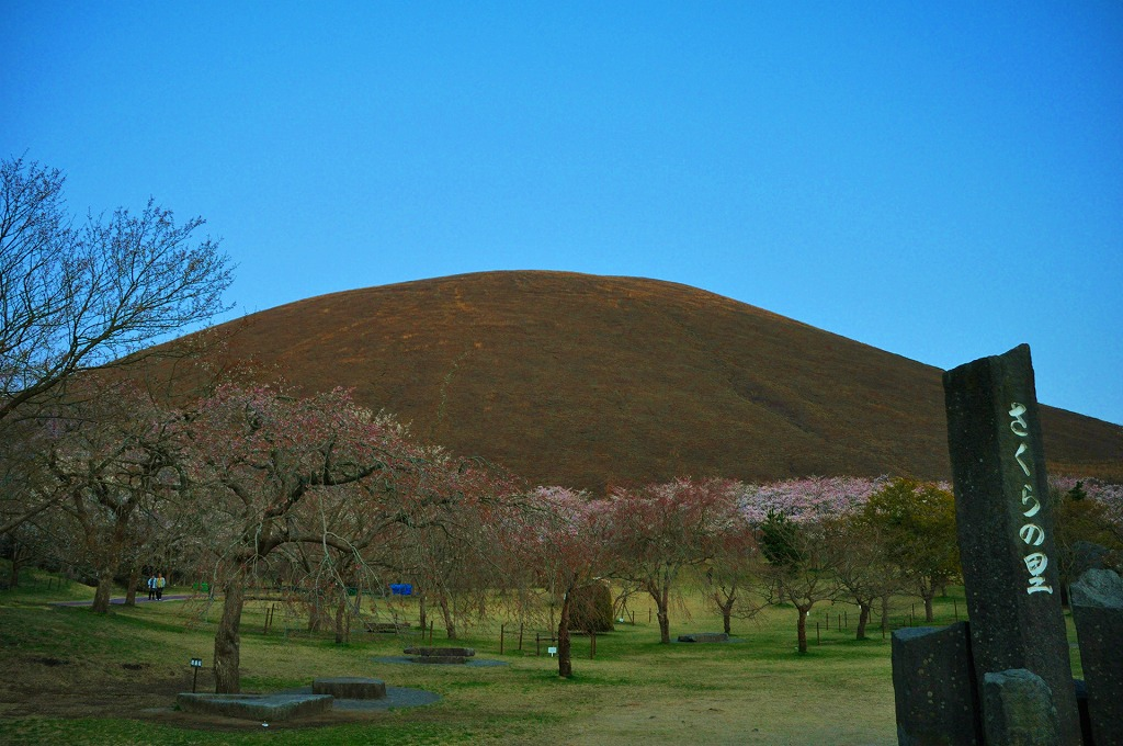 Mount Omuro from view sakura-no-sato